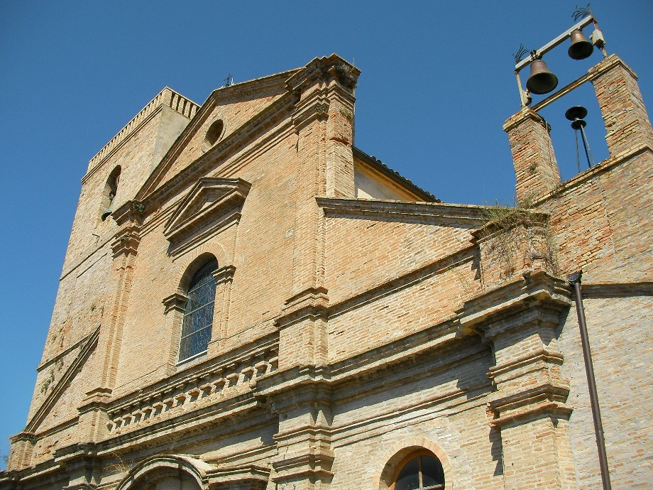 The church of St. Salvatore in Torino di Sangro